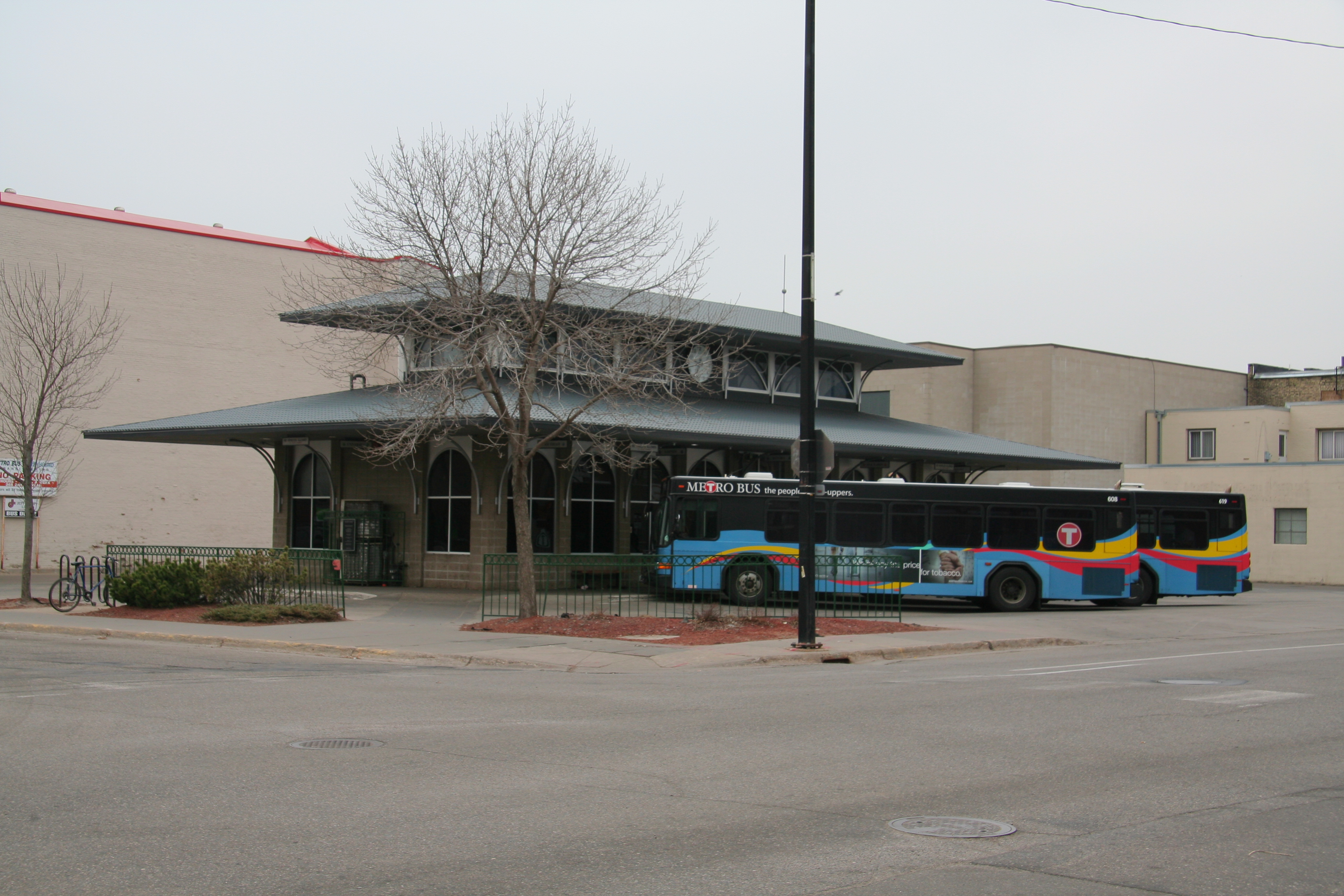 St. Cloud Metro Bus transit center in downtown St. Cloud, Minnesota